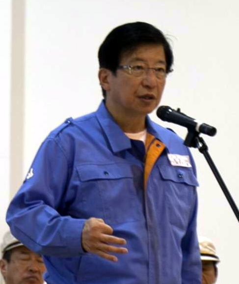 Heita Kawakatsu, Governor of Shizuoka Prefecture, discussed disaster relief preparation during the Shizuoka Disaster Preparedness Drill at the Togami Sports Field in Fujinomiya City, Shizuoka Prefecture on September 1, 2013.